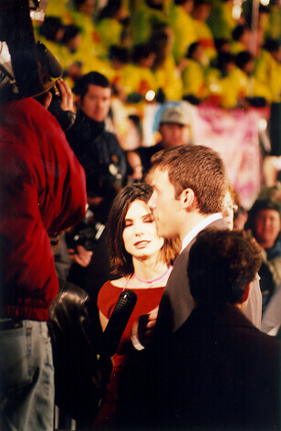 Premiere of "Forces of Nature"